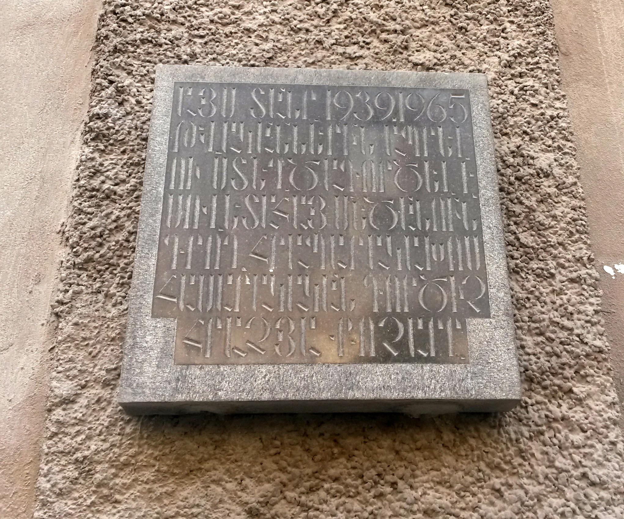 Hrachya Qochar's plaque